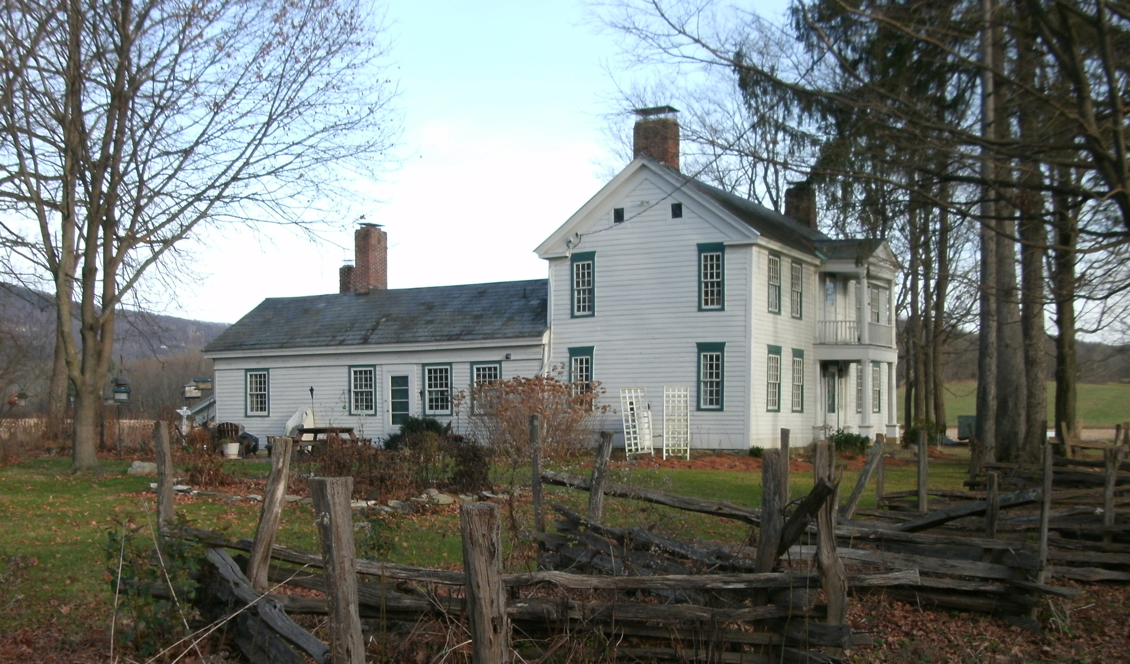 GE DIGITAL CAMERA White Creek, New York